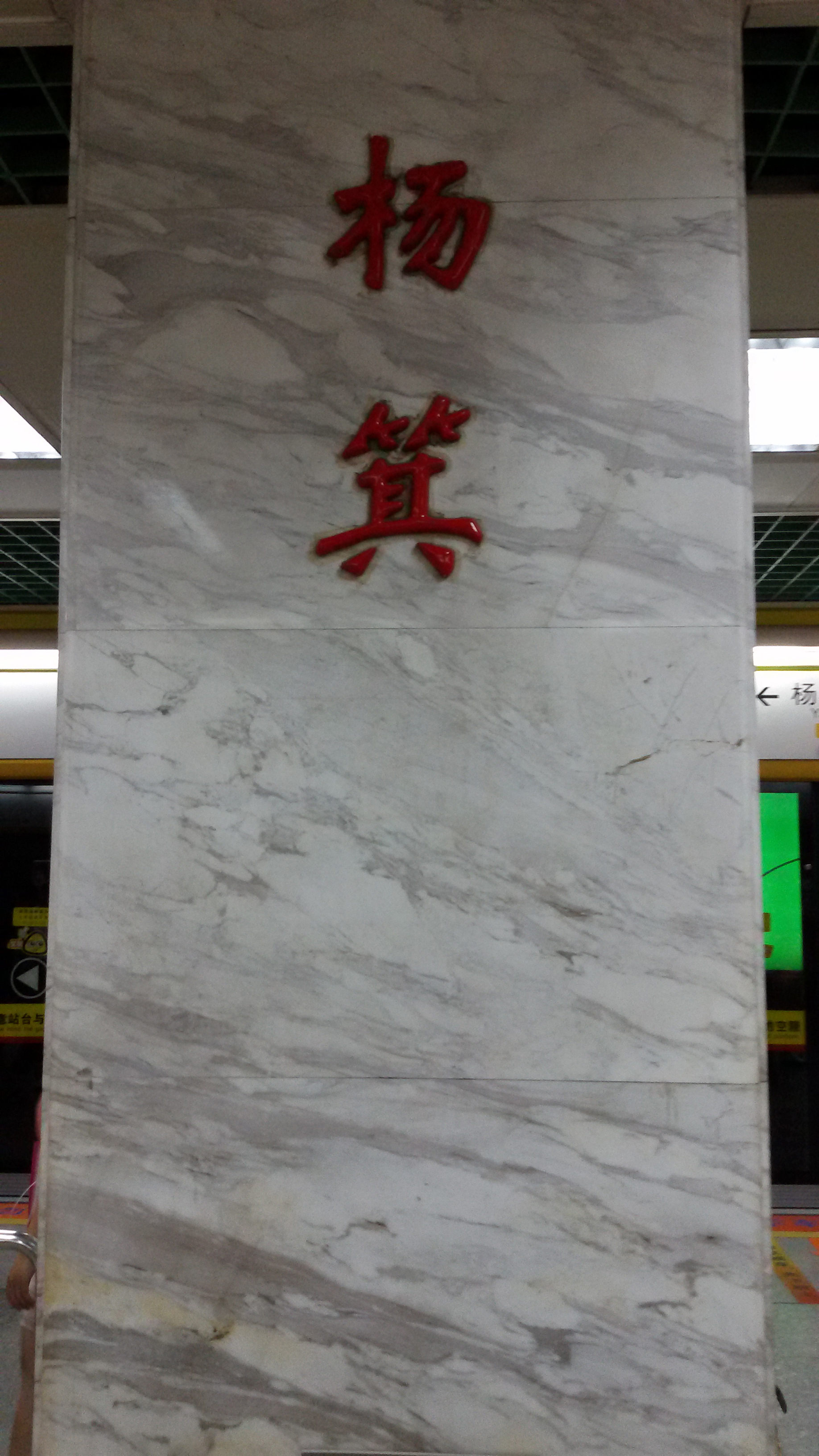 WORD on Pillar for Yangji Station in Line 1, Guangzhou Metro 粵語: 楊箕站嘅柱上面啲字（廣州地鐵1號綫）